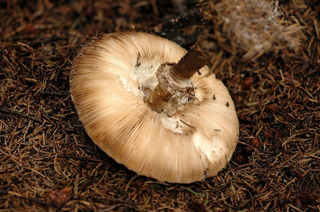 Chlorophyllum olivieri from Commanster, Belgium. The determination of the species shown in this picture has been verified.